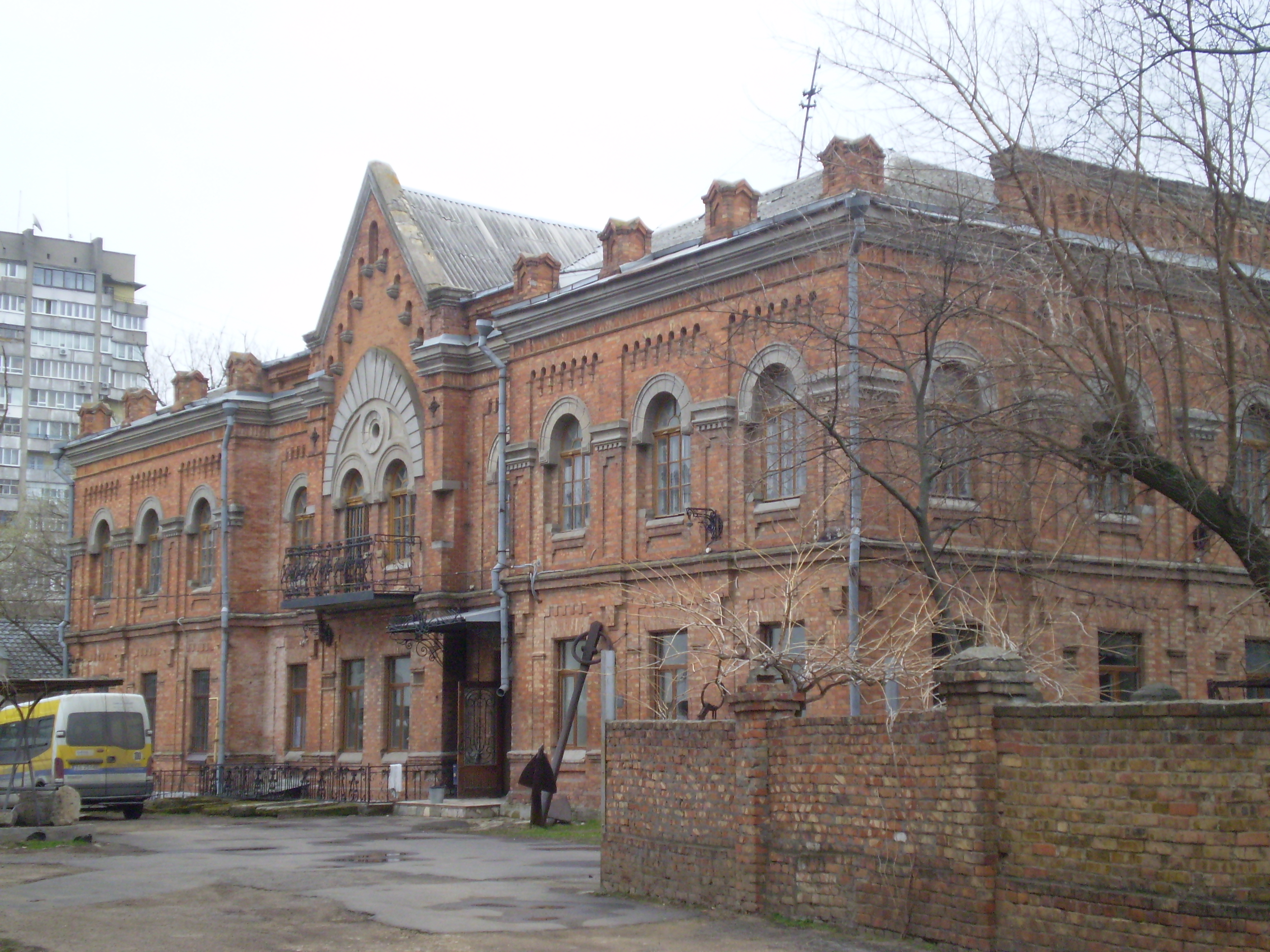 будинок ксьондза Костелу св. Іосифа, по вул. Декабристів,34 Миколаївська весна у Вікіпедії